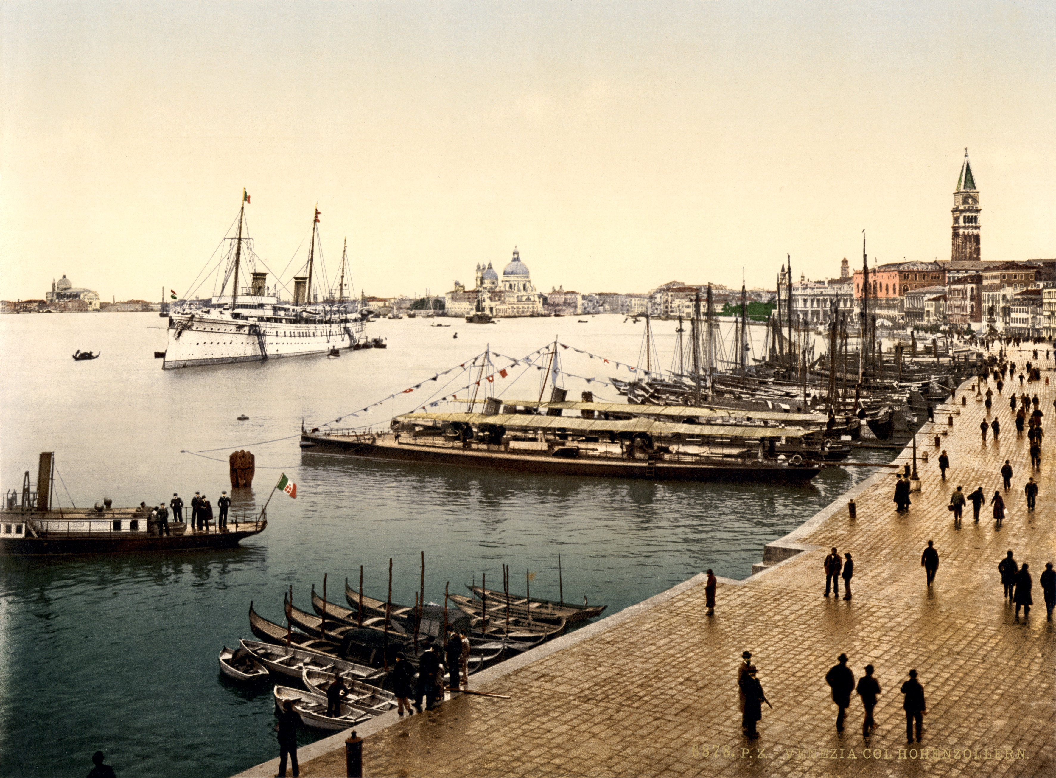 6878 P.Z. Venezia col Hohenzollern. Photochrom print by Photoglob Zürich, between 1890 and 1900. From the Photochrom Prints Collection at the Library of Congress More photochroms from Italy | More photochrom prints [PD] This picture is in the public domain